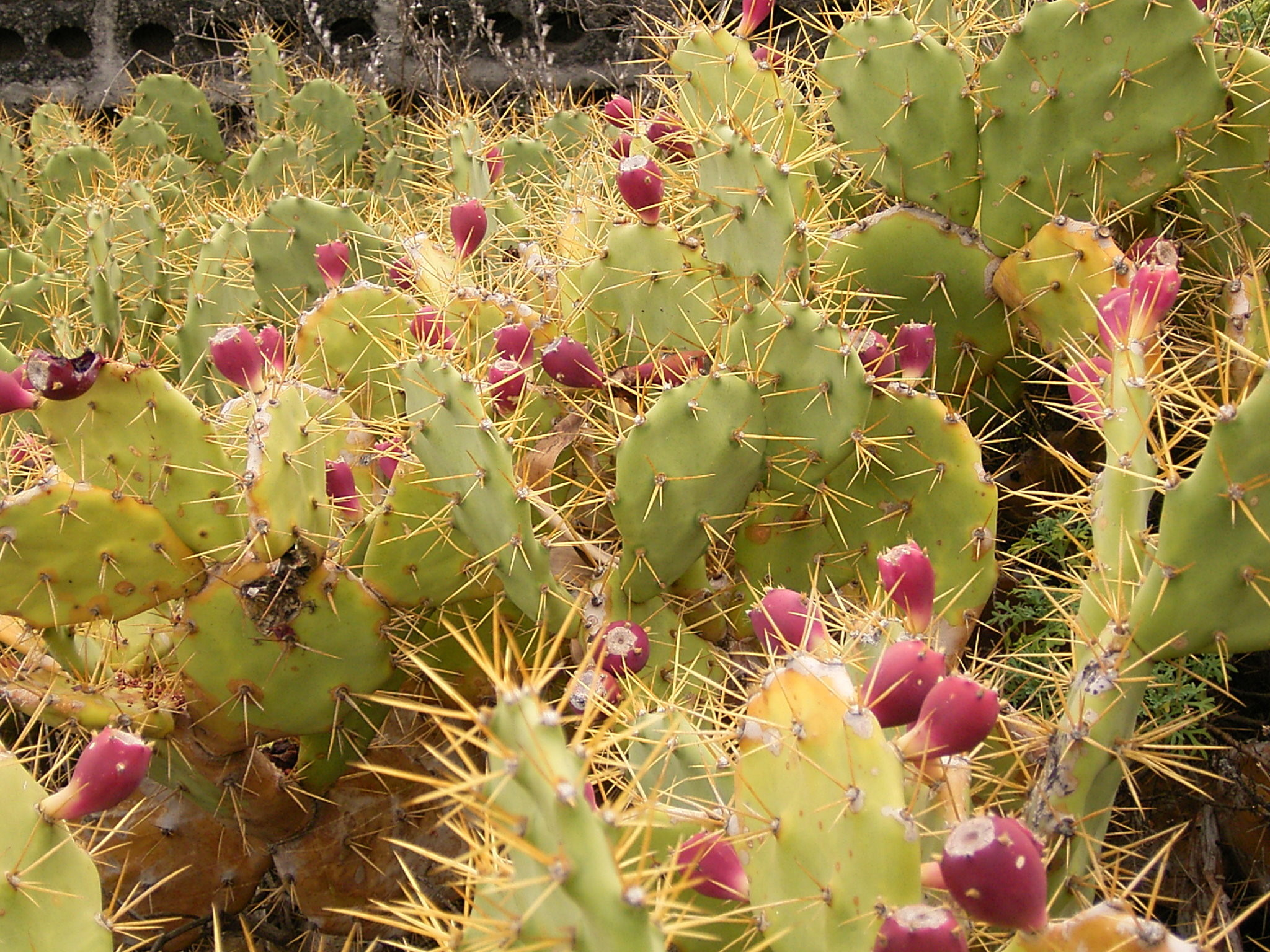 Opuntia dillenii growing in San Andrés y Sauces, La Palma, Canary Islands